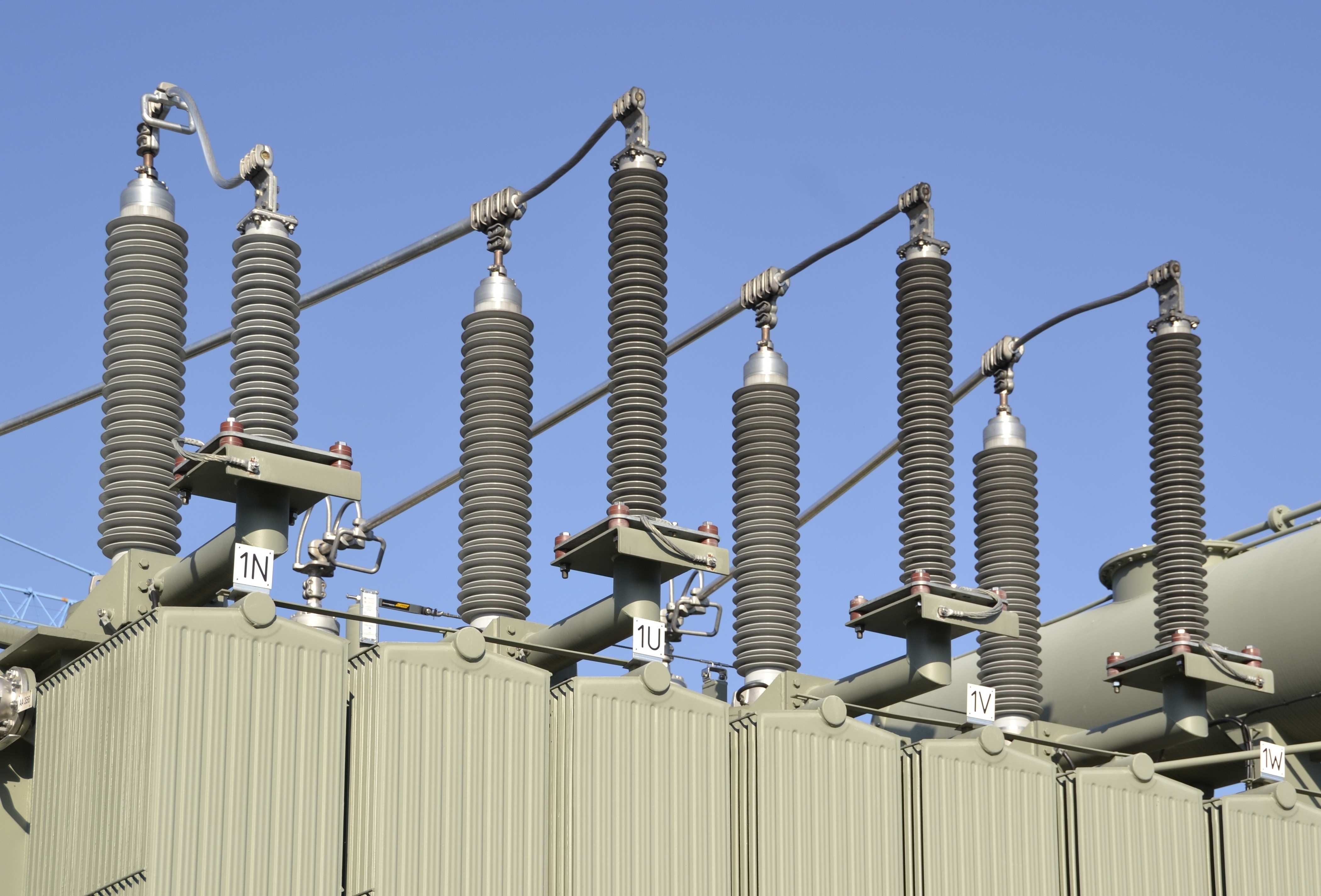 Electric insulators on top of a transformer at Kachlet Power Plant.